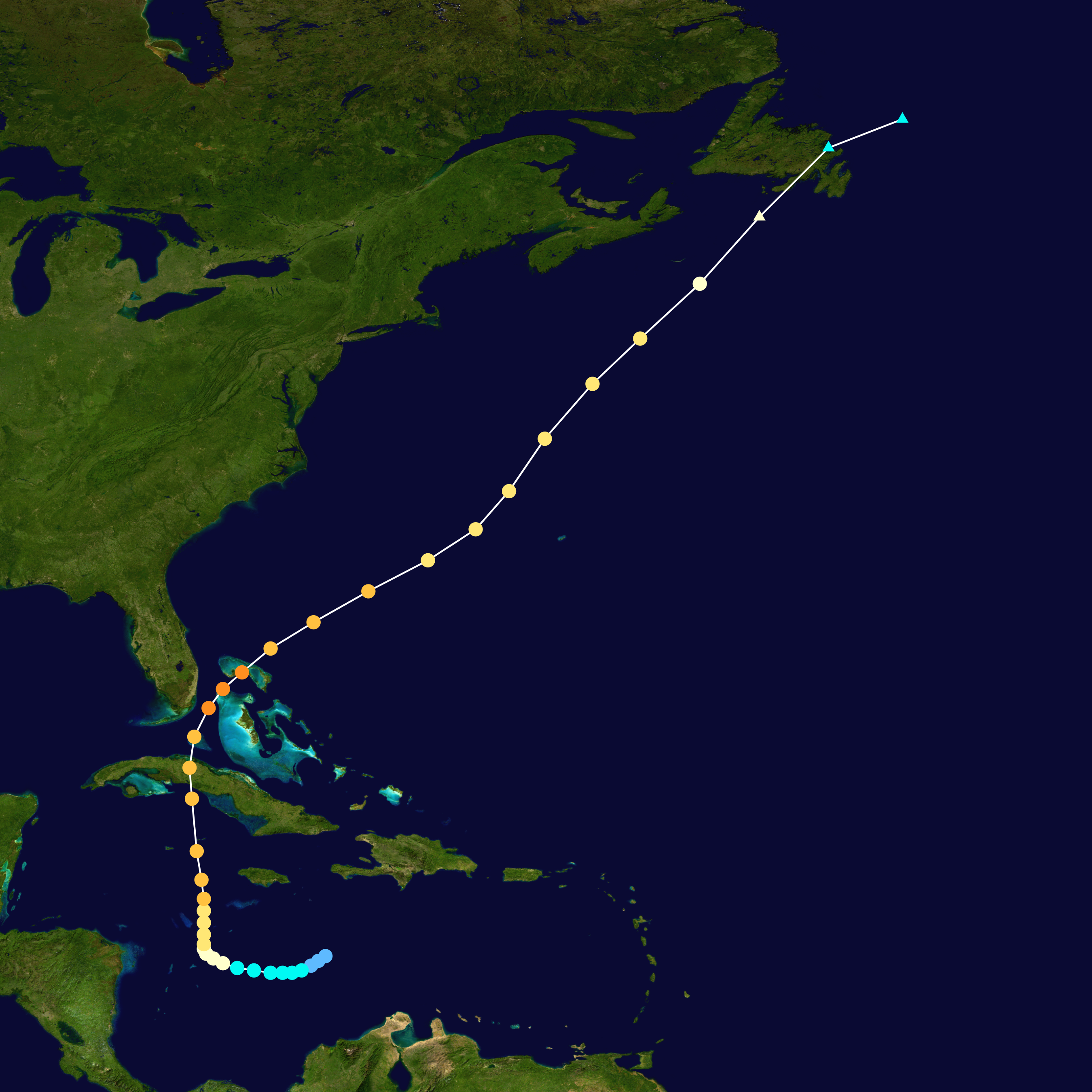 1935 Atlantic hurricane 5 track. Uses the color scheme from the Saffir-Simpson Hurricane Scale.